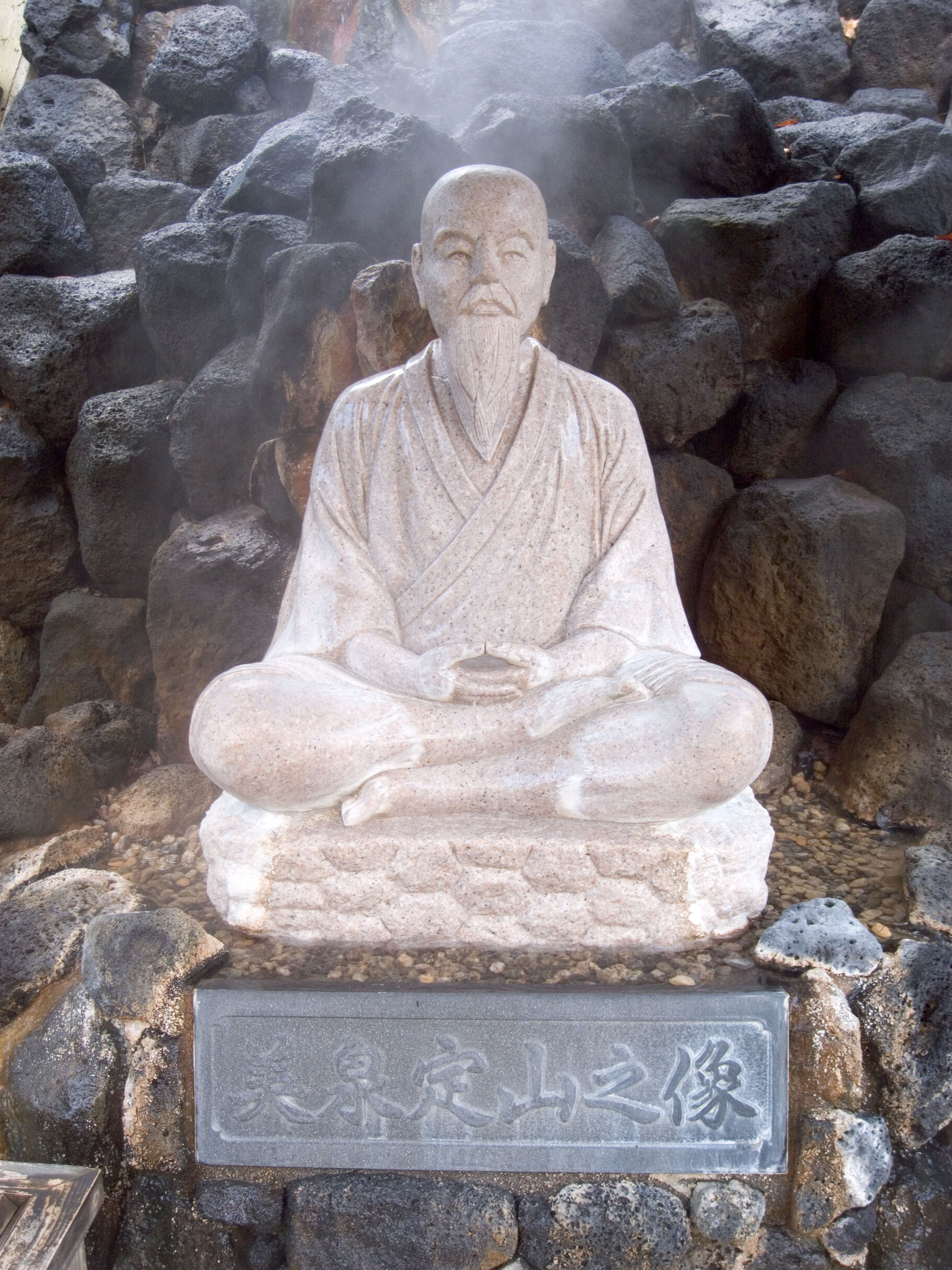 Statue of Miizumi Jozan, Sapporo, Hokkaido, Japan